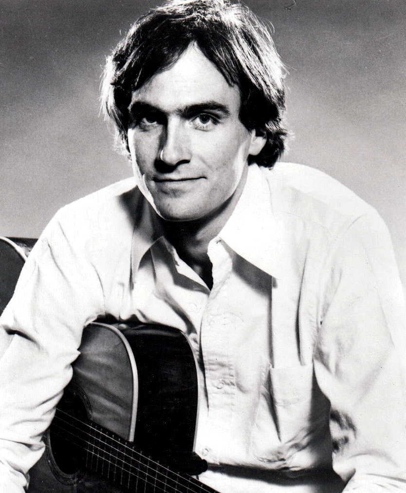 Talent agency publicity photo of singer-songwriter James Taylor.